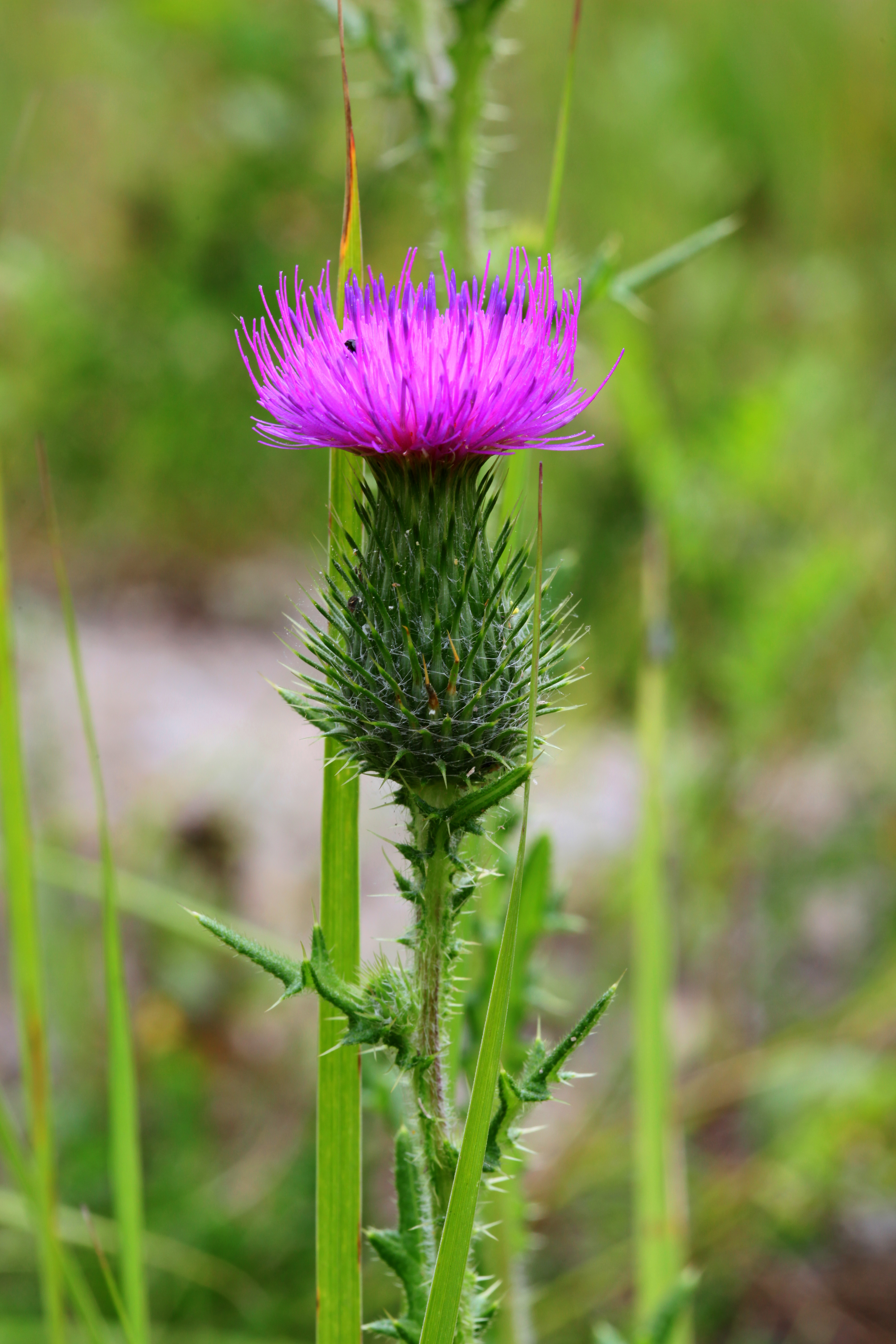 Cirsium_vulgare.